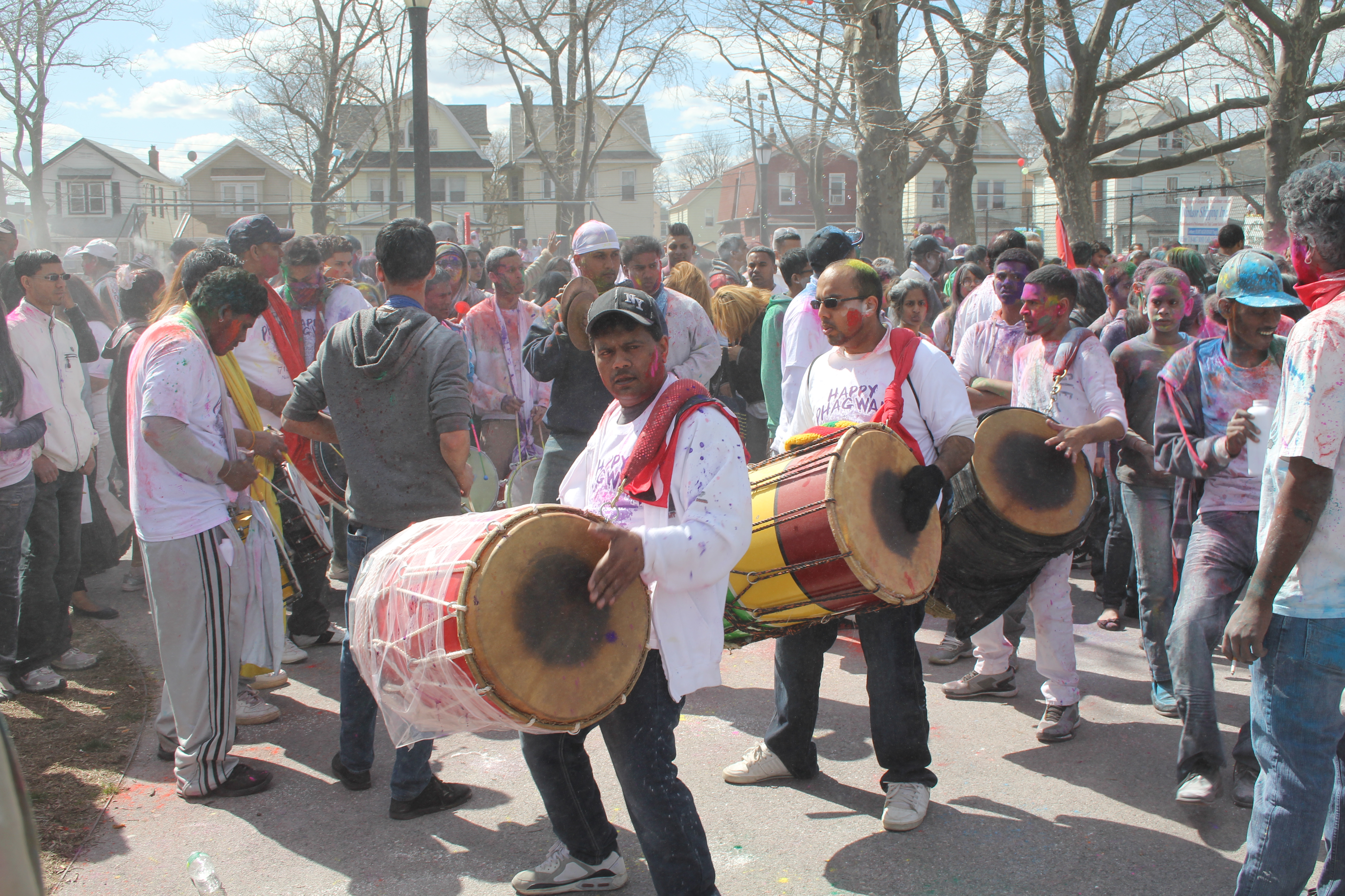 Indo-Caribbean Drummers. Taken during the March 2013 Holi/Phagwah celebration in Richmond Hill, Queens, New York City.